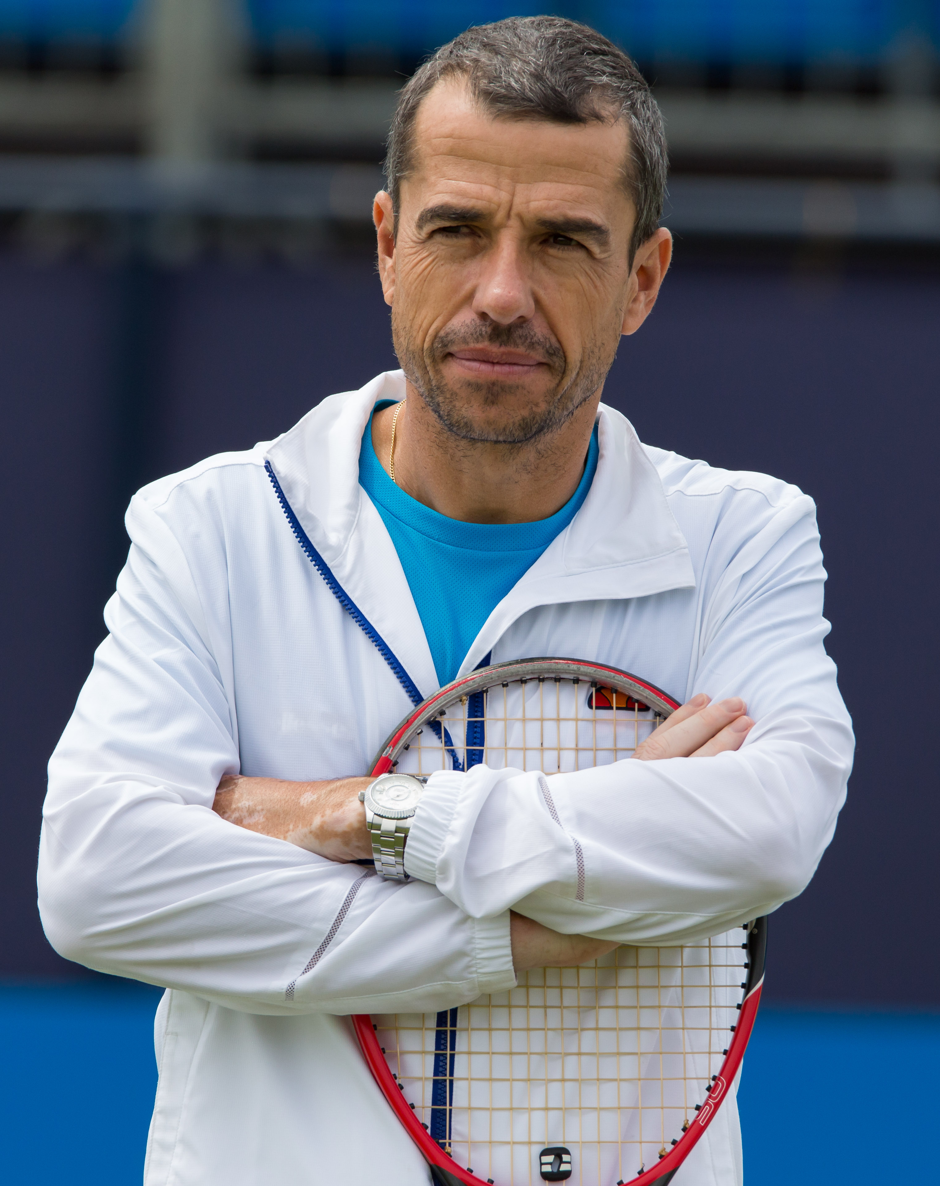 Jose Clavet coaching Feliciano López during practice at the Queens Club Aegon Championships in London, England.